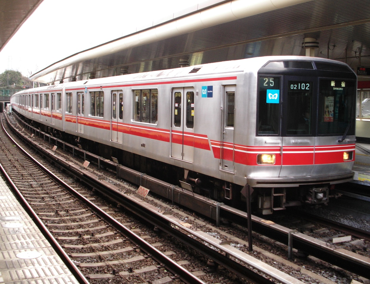 Tokyo Metro 02 series EMU on the Marunouchi Line at Yotsuya Station in Tokyo